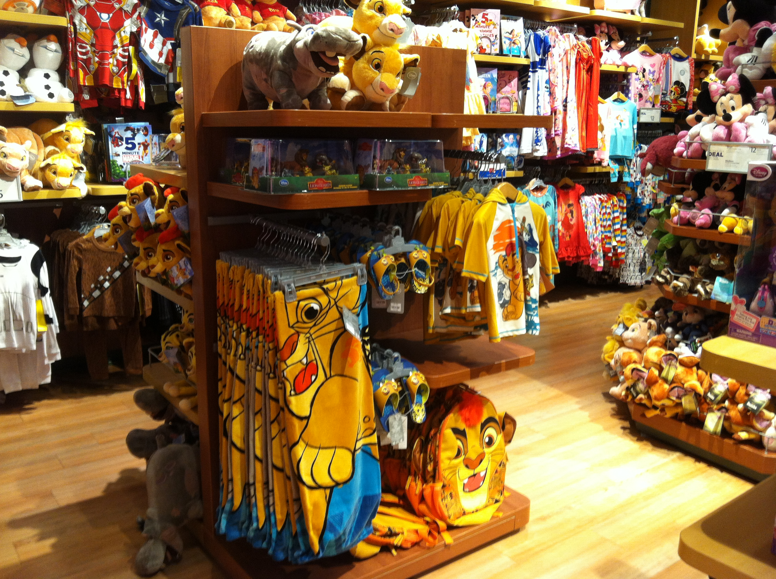 Lion Guard plush & clothes at a Disney Store in the Mall at Temecula, California.